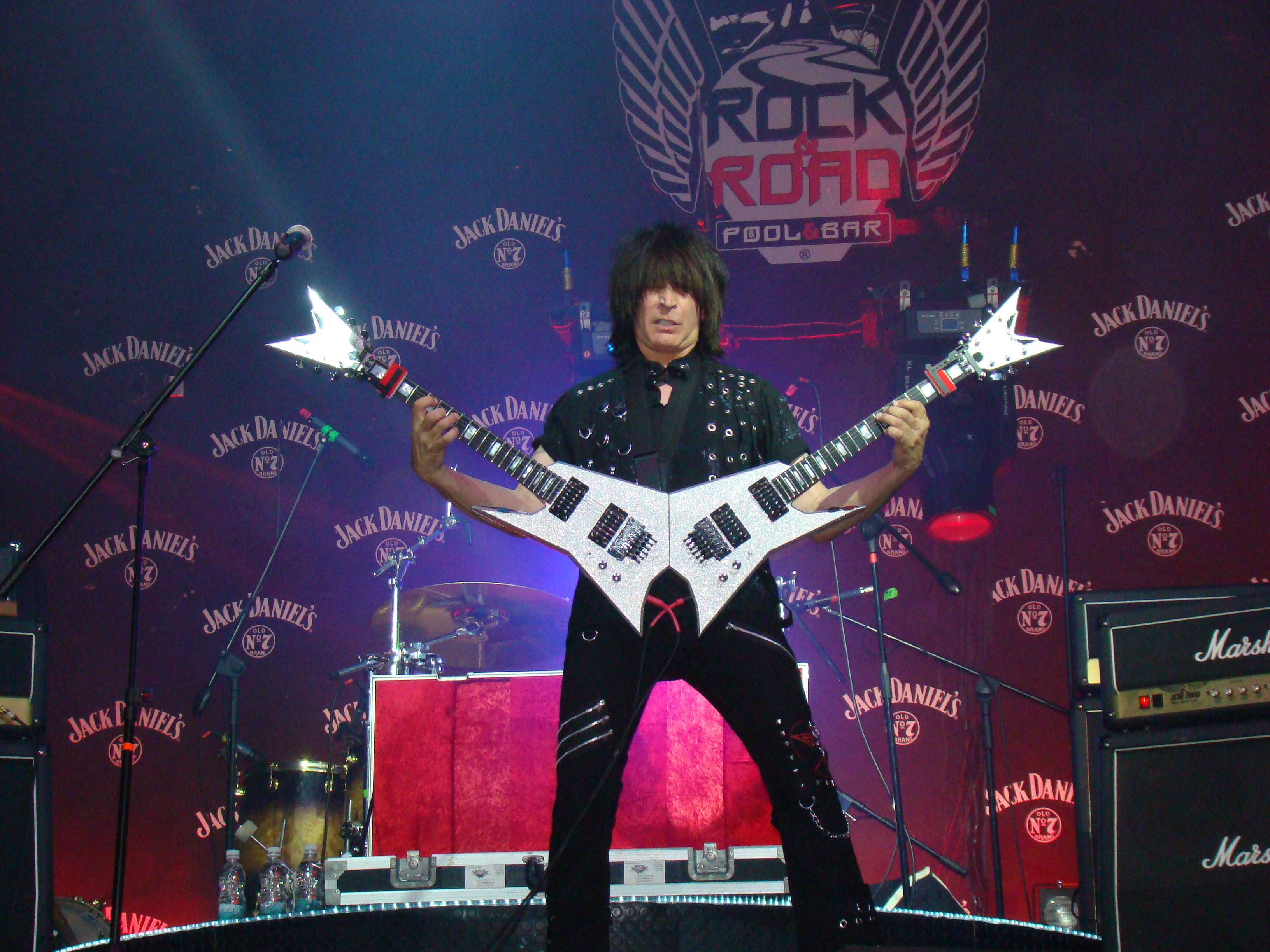 Michael Angelo in Mexico City 2012